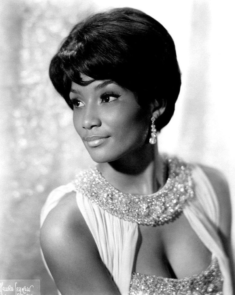 Photo of singer Eloise Laws.